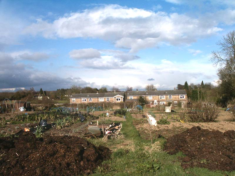 Allotments at Buckland Common in Buckinghamshire. Manure pile in foreground former council houses in background